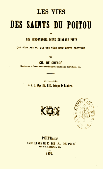 Scan of the page of presentation of the book